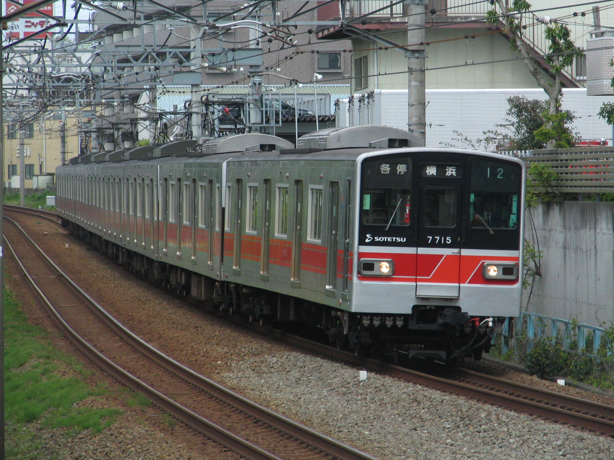 TYPE-New 7000 owns Sagami railway company between Kibougaoka and Futamatagawa.